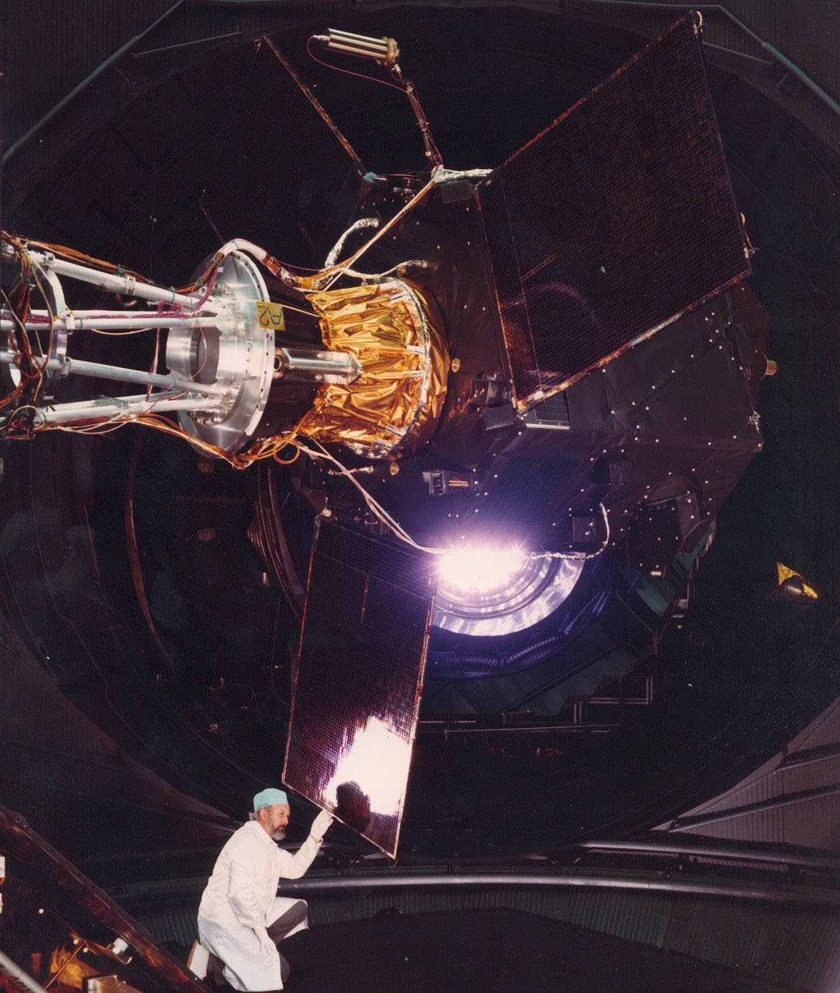 Hipparcos satellite: testing in the Large Solar Simulator, ESTEC